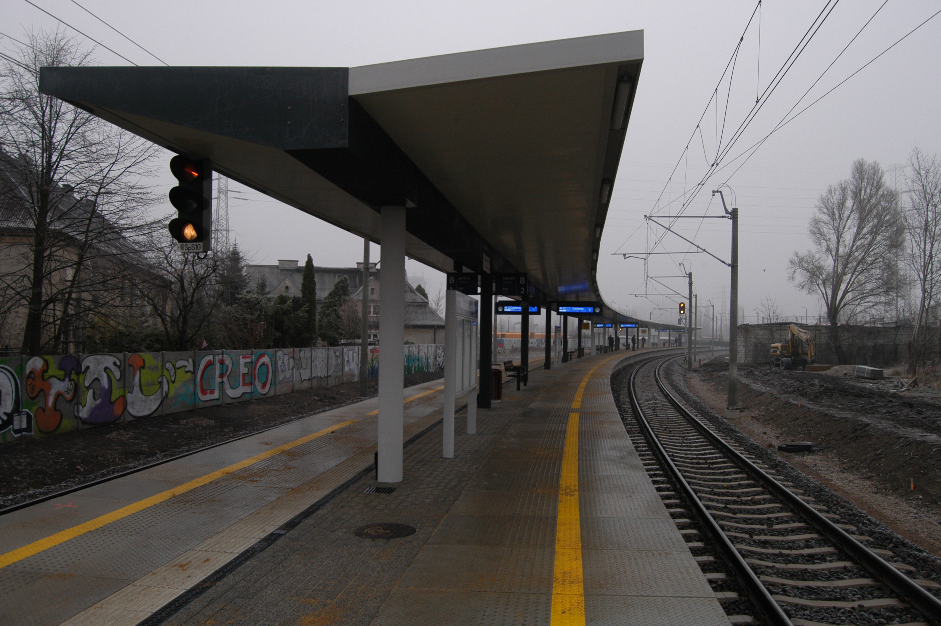 Warszawa Zachodnia platform 8 in December 2018